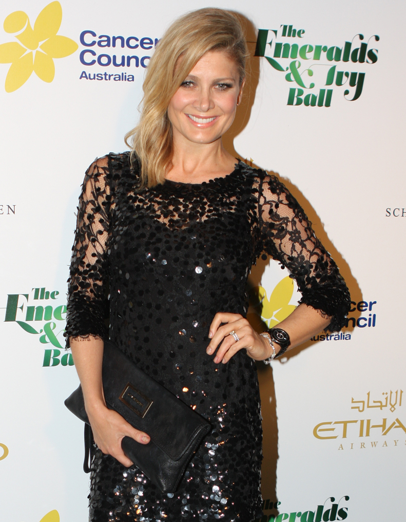 Natalie Bassingthwaighte at the The Ivy Ballroom in Sydney, November 2012.